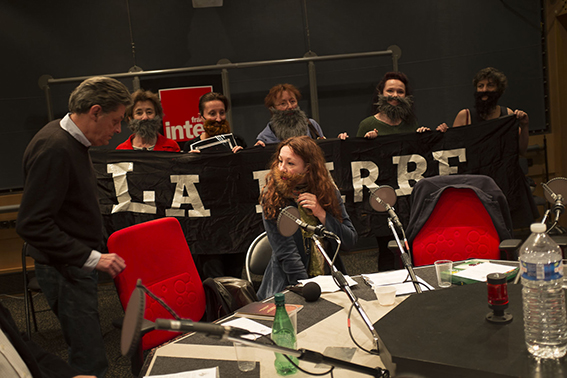 Action à l'antenne de France Inter du groupe féministe La Barbe lors d'une émission 3D (en direct),consacrée aux 30 ans de la fondation Cartier. L'activiste lit un tract au titre ironique :"Aux hommes la création, aux femmes la procréation".